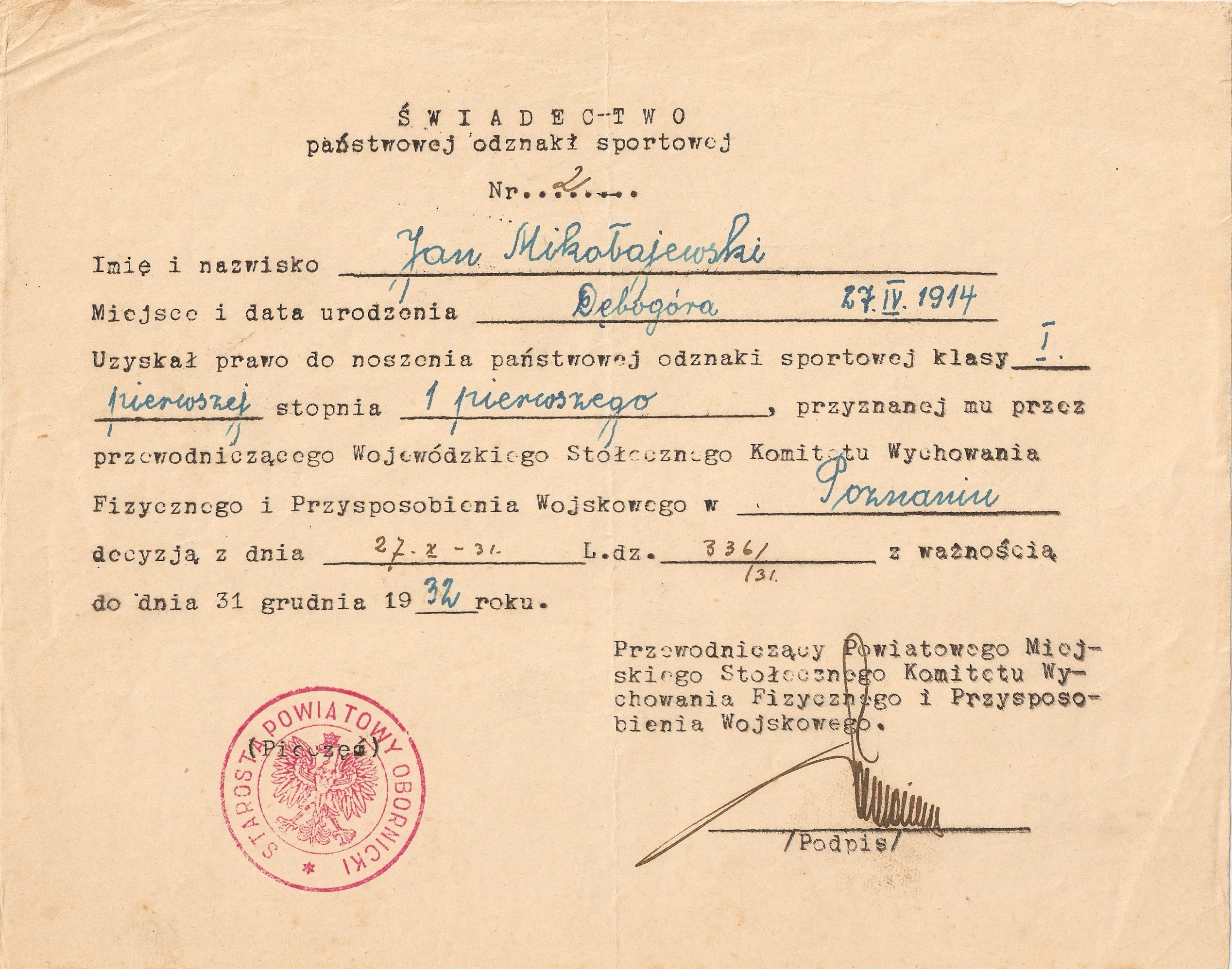 Polish national sport badge